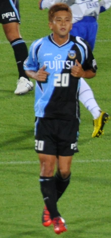 Junichi_Inamoto cropped from Kawasaki Frontale vs Gamba Osaka_228